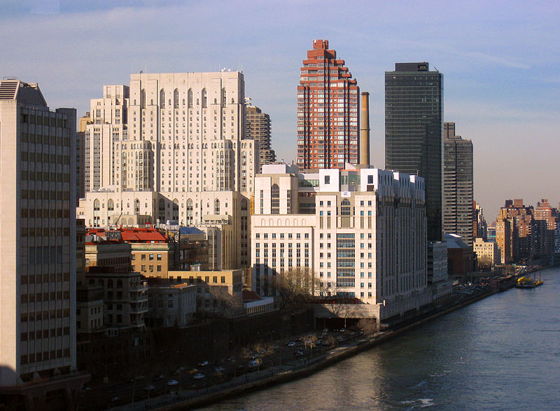 New York Presbyterian Hospital--Weill Cornell campus from Roosevelt Island Tram